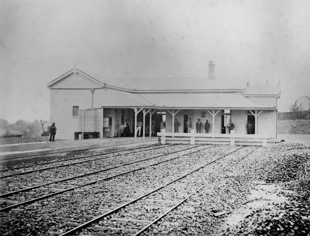 Gympie Railway Station in 1882 Trains halt at the end of the line in front of the Gympie Station. The station building is timber with a ticket office and central entrance. Gympie is a city in south-eastern Queensland, situated on the Mary River about 162 kilometres north of Brisbane. Gympie is the centre of an important dairying and agricultural district. In the early days timber was a significant industry.